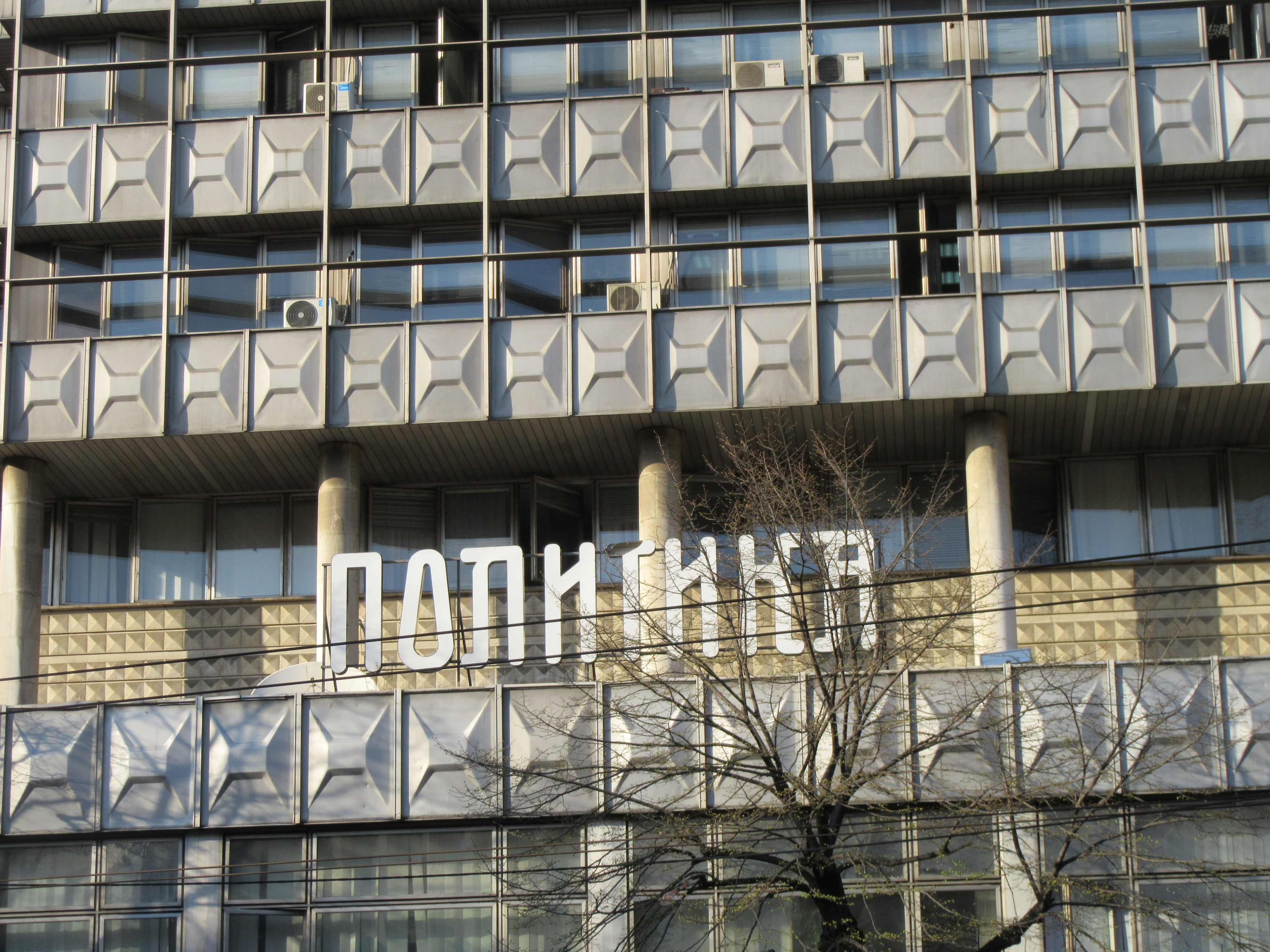 Palace Politics, Makedonska street, Belgrade, Serbia, 2019. Srpski (latinica): Palata Politika, Makedonska ulica, Beograd, Srbija, 2019.